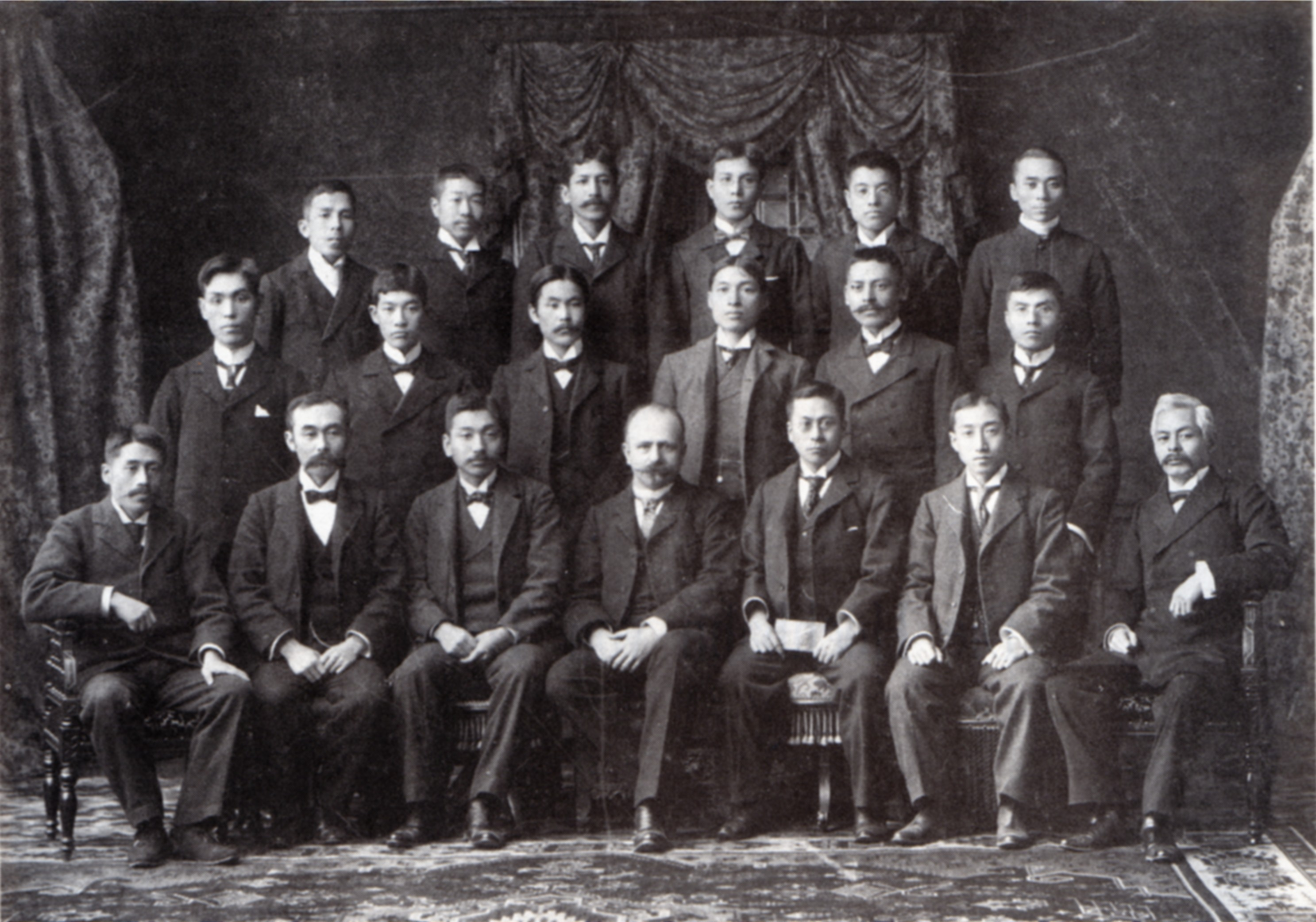 Franz Baltzer, a foreign technical advisor to Japanese government in the center and Japanese engineers from Shin-eikan construction office around him, at the farewell party for Baltzer's return to Germany.